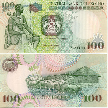 Scan, with deleted serial numer.